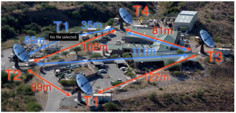 This photo shows the locations of the VERITAS telescopes before and after the relocation in 2009.